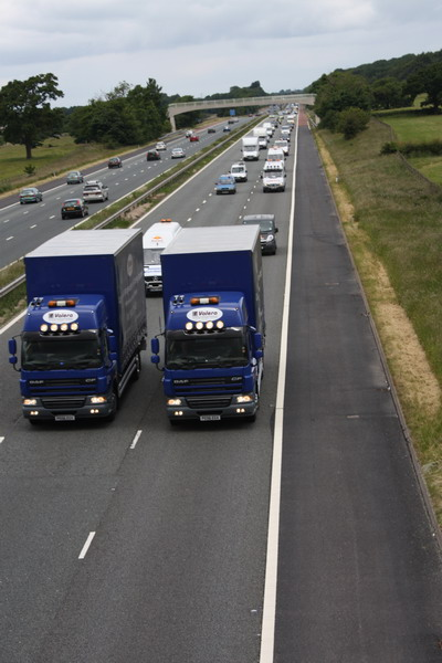 Fuel Price Protest on M6 A convoy performed a "go-slow" protest against rapidly rising fuel costs, with flashing lights and blaring horns.